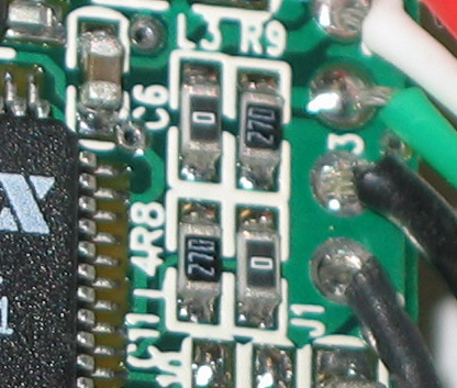 This photo shows some surface mounted resistors, including two zero ohm resistors. Wire links are often made with zero ohm resistors, so they can be inserted by the resistor-inserting machine.